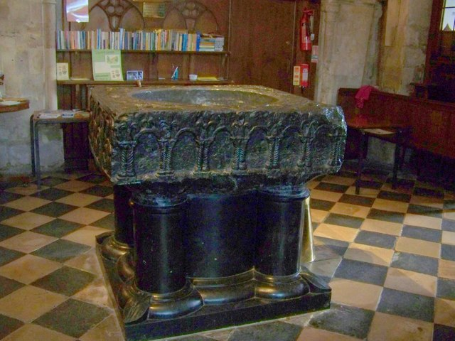 Baptismal font in St Peter's parish church, St Mary Bourne, Hampshire, England. The font in this church is one of the seven Tournai fonts in this country, four of which are in Hampshire. Although loosely called "marble", they are in fact a dense black/blue schistose limestone of the carboniferous age, able to take a high polish.